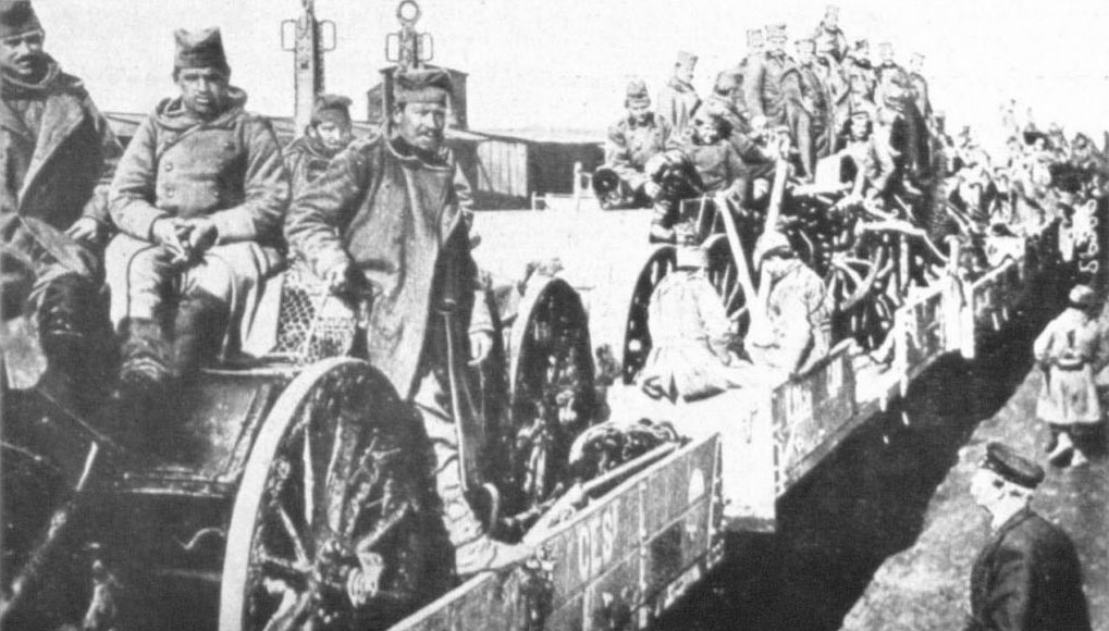 This image file contains a scanned text page with no illustrations.